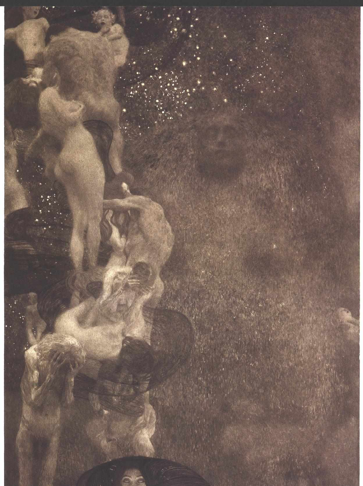 Philosophy